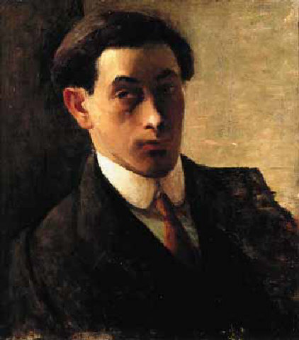 Selfportrait